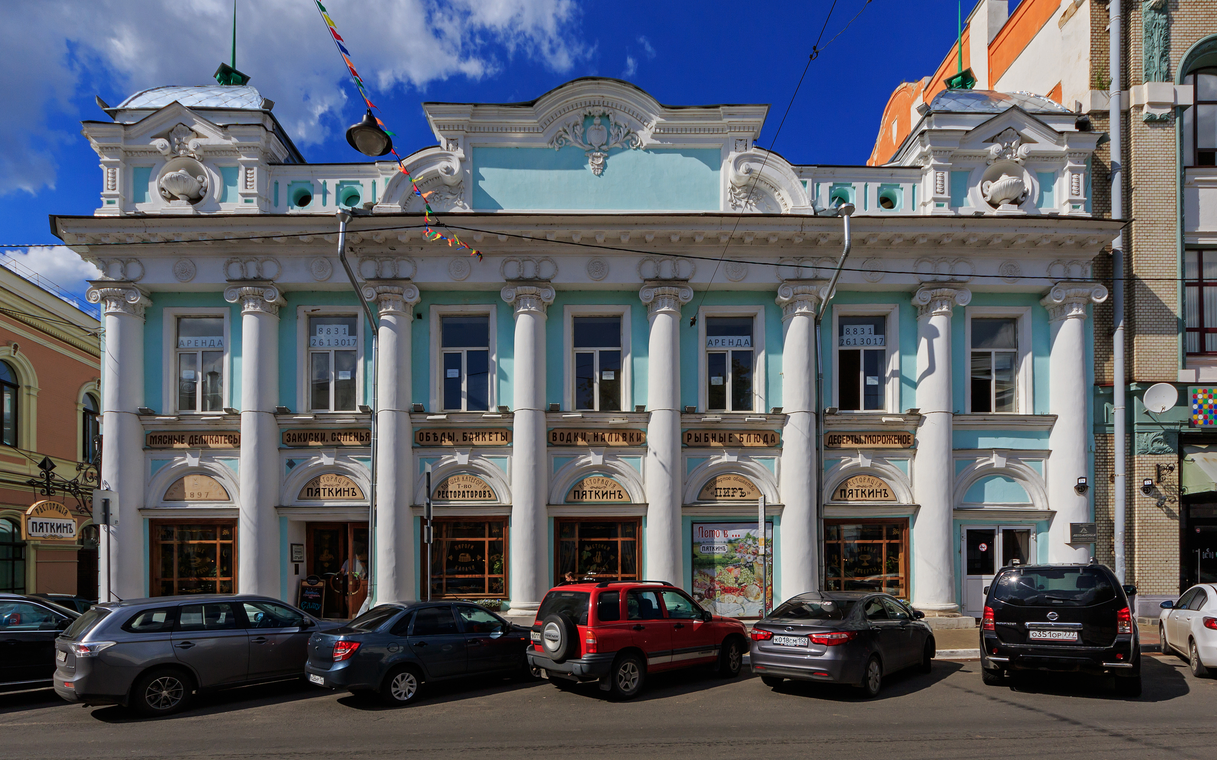 Building at 25, Rozhdestvenskaya Street in Nizhny Novgorod, Russia